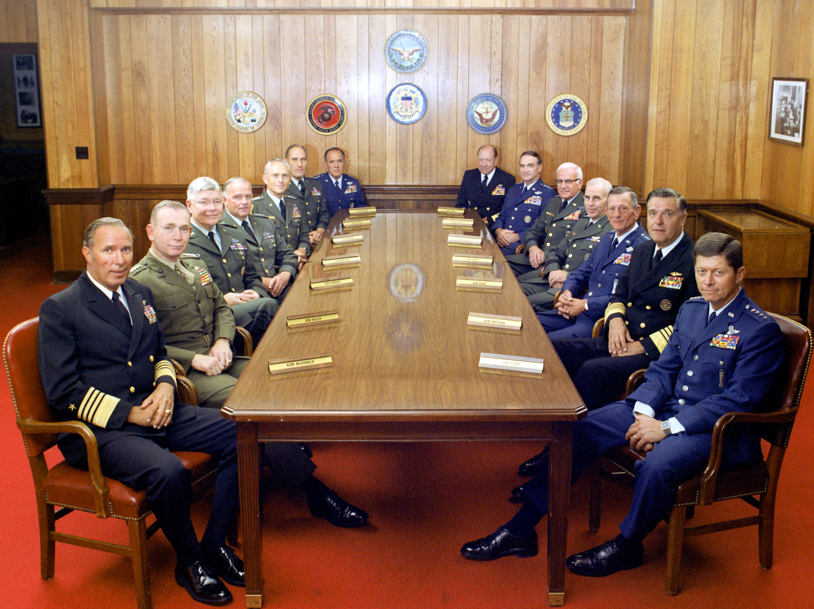 This is a group photograph of the Joint Chiefs of Staff and several combatant commanders taken on July 1, 1983, in the Chairman of the Joint Chiefs of Staff dining room, located in the Pentagon. Shows (left to right): Navy Adm. Wesley L. McDonald, Commander in Chief, US Atlantic Command; Marine Corps Gen. Paul X. Kelley, Commandant of the Marine Corps; Army Gen. Paul F. Gorman, Commander in Chief, US Southern Command; Army Lt. Gen. Robert C. Kingston, Commander in Chief, US Central Command; Army Gen. John A. Wickham, Chief of Staff, US Army; Army Gen. Wallace H. Nutting, Commander in Chief, US Readiness Command; Air Force Gen. James V. Hartinger, Commander in Chief, Aerospace Defense Command; Navy Adm. William J. Crowe, Commander in Chief, US Pacific Command; Air Force Gen. Charles A. Gabriel, Chief of Staff, U.S. Air Force; Army Gen. Bernard W. Rogers, Commander in Chief, US European Command; Army Gen. John W. Vessey Jr., Chairman of the Joint Chiefs of Staff; Air Force Gen. Bennie L. Davis, Commander in Chief, US Strategic Air Command; Navy Adm. James D. Watkins, Chief of Naval Operations; Air Force Gen. Thomas M. Ryan Jr., Commander in Chief, Military Airlift Command.